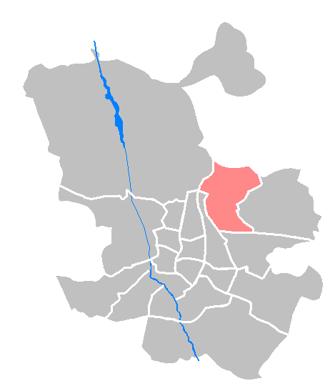 Locator maps of districts in Madrid: Maps - ES - Madrid - Hortaleza.PNG